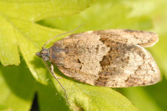 Syndemis musculana from Commanster, Belgian High Ardennes .